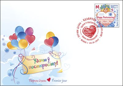 Happy Postcrossing!